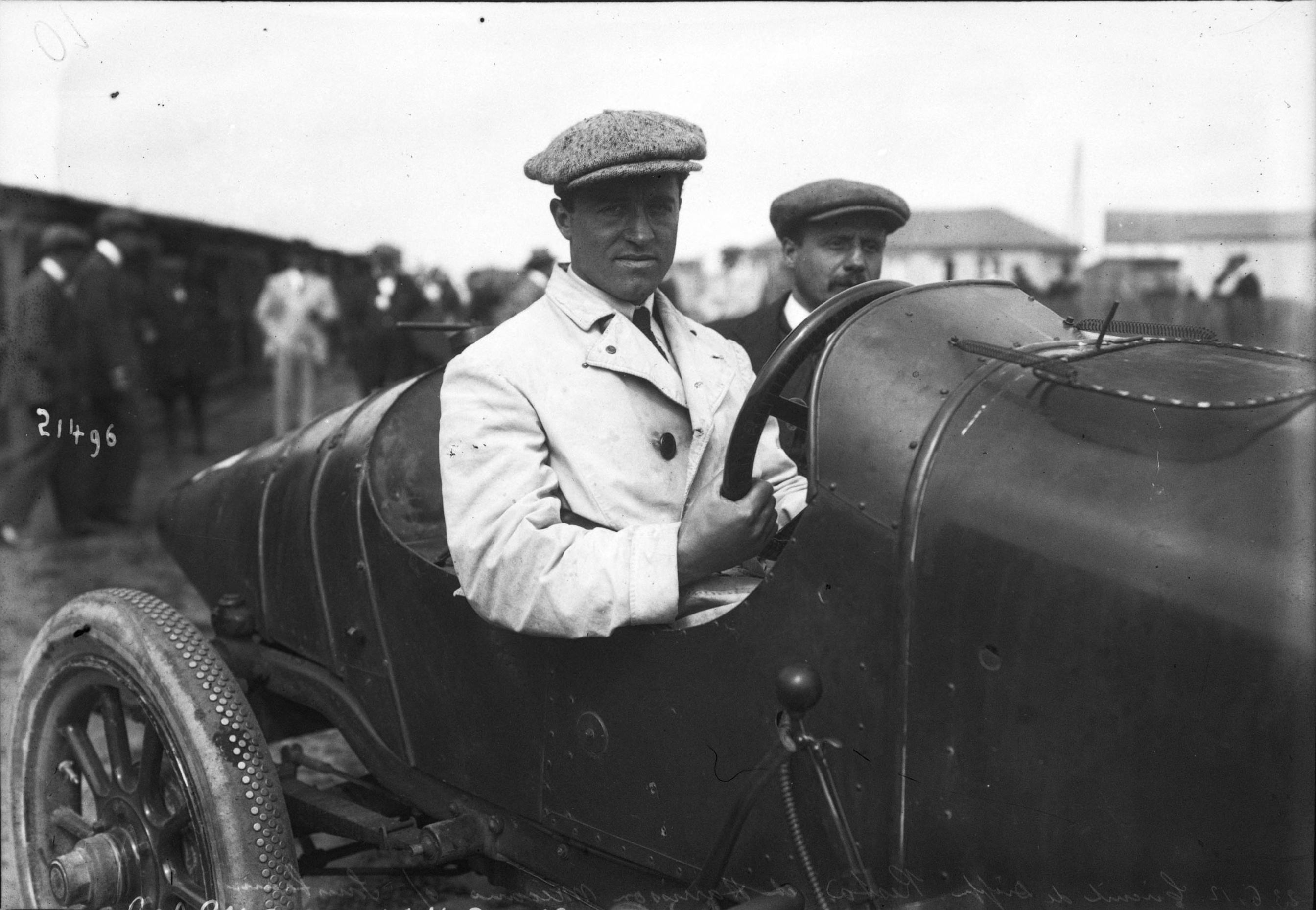 Dario Resta in his Sunbeam at the 1912 French Grand Prix at Dieppe.